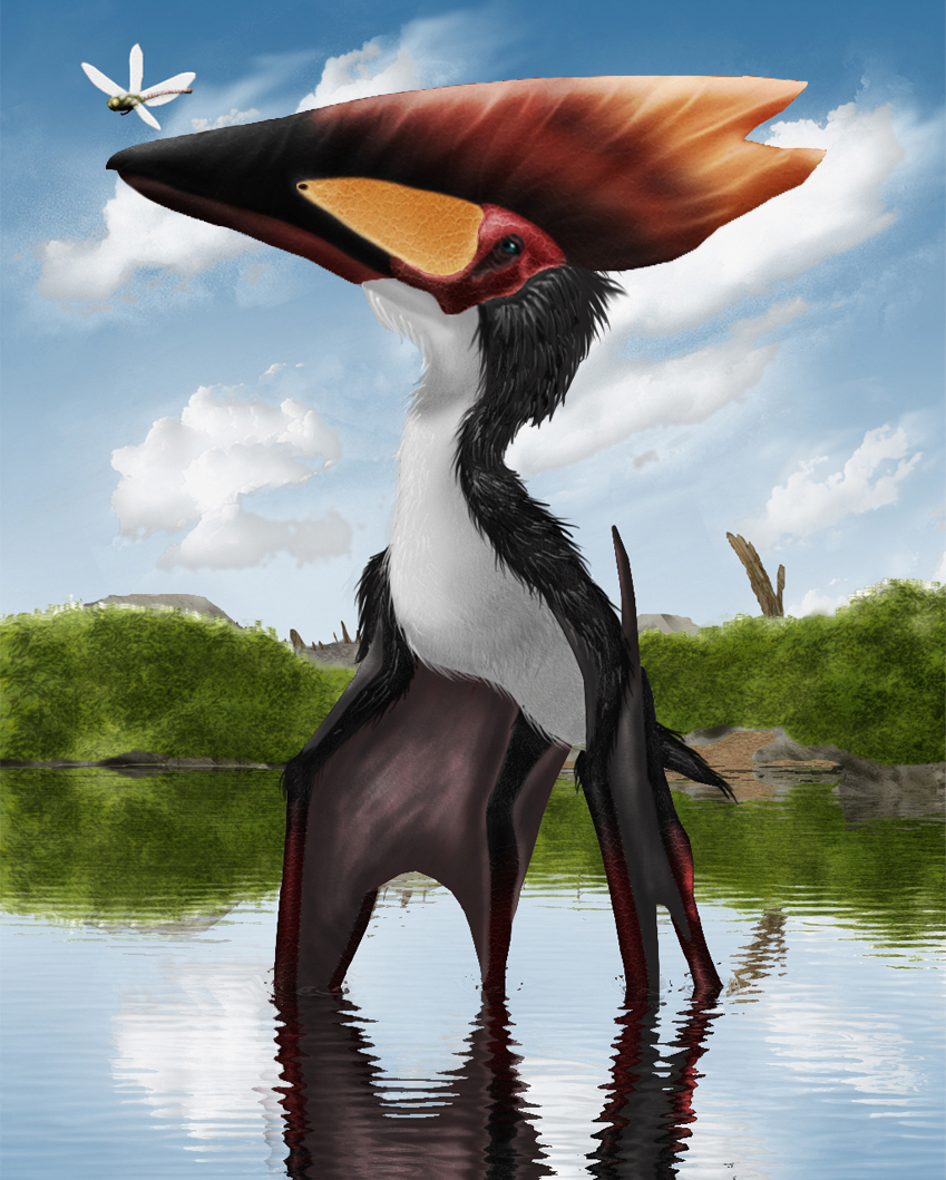 Thalassodromeus sethi standing in a tidal marsh. It was more comparable to modern day storks and egrets than to Skimmers according to the latest research. Modified to match reconstructions in for example Witton, M. P. (2013). Pterosaurs: Natural History, Evolution, Anatomy. Princeton and Oxford: Princeton University Press. pp. 237-238. ISBN 978-0691150611.